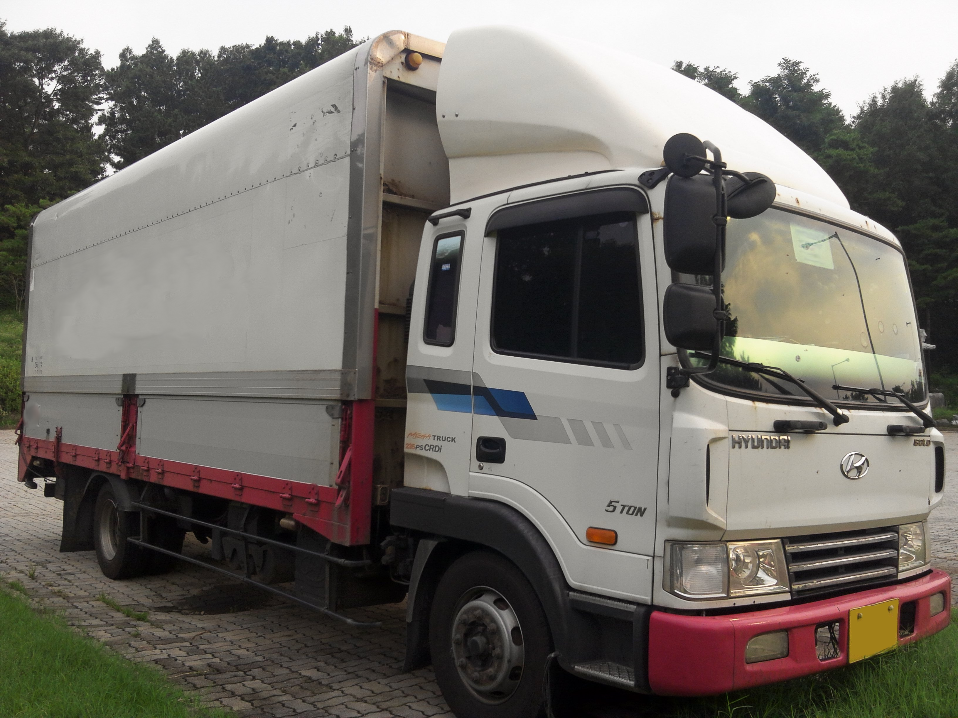 Front-right side of Hyundai Mega Truck.